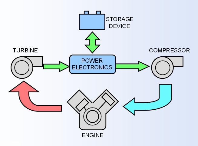 Basic Schematic of Aeristech Hybrid Turbocharger Technology